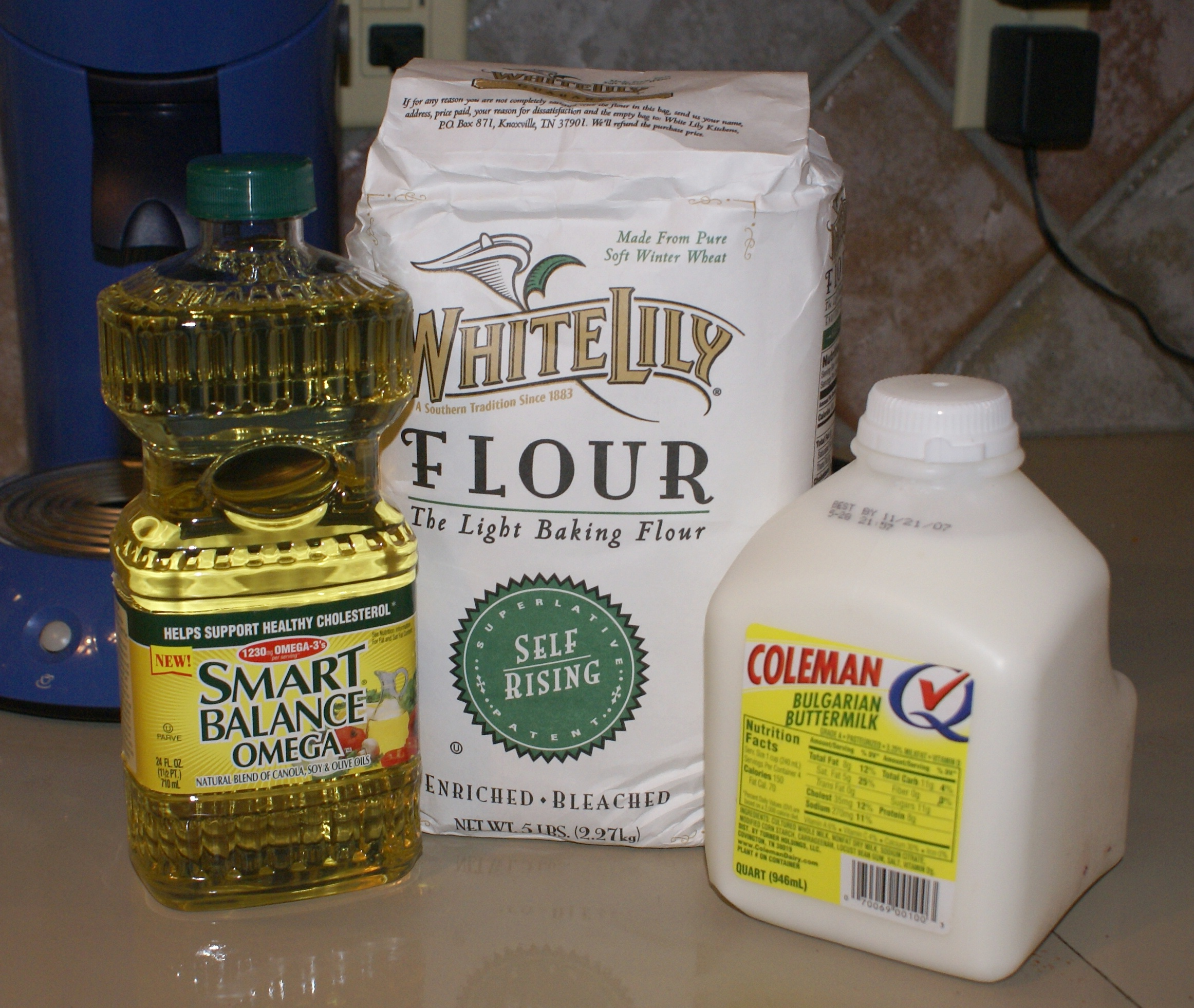 Biscuits or dumplings. ONE part vegetable oil TWO parts buttermilk FOUR parts self-rising flour